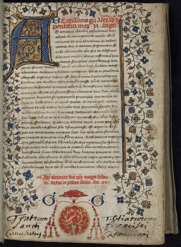 Cosmography by Claudius Ptolemy, p.0009. Scan from Nancy Library.